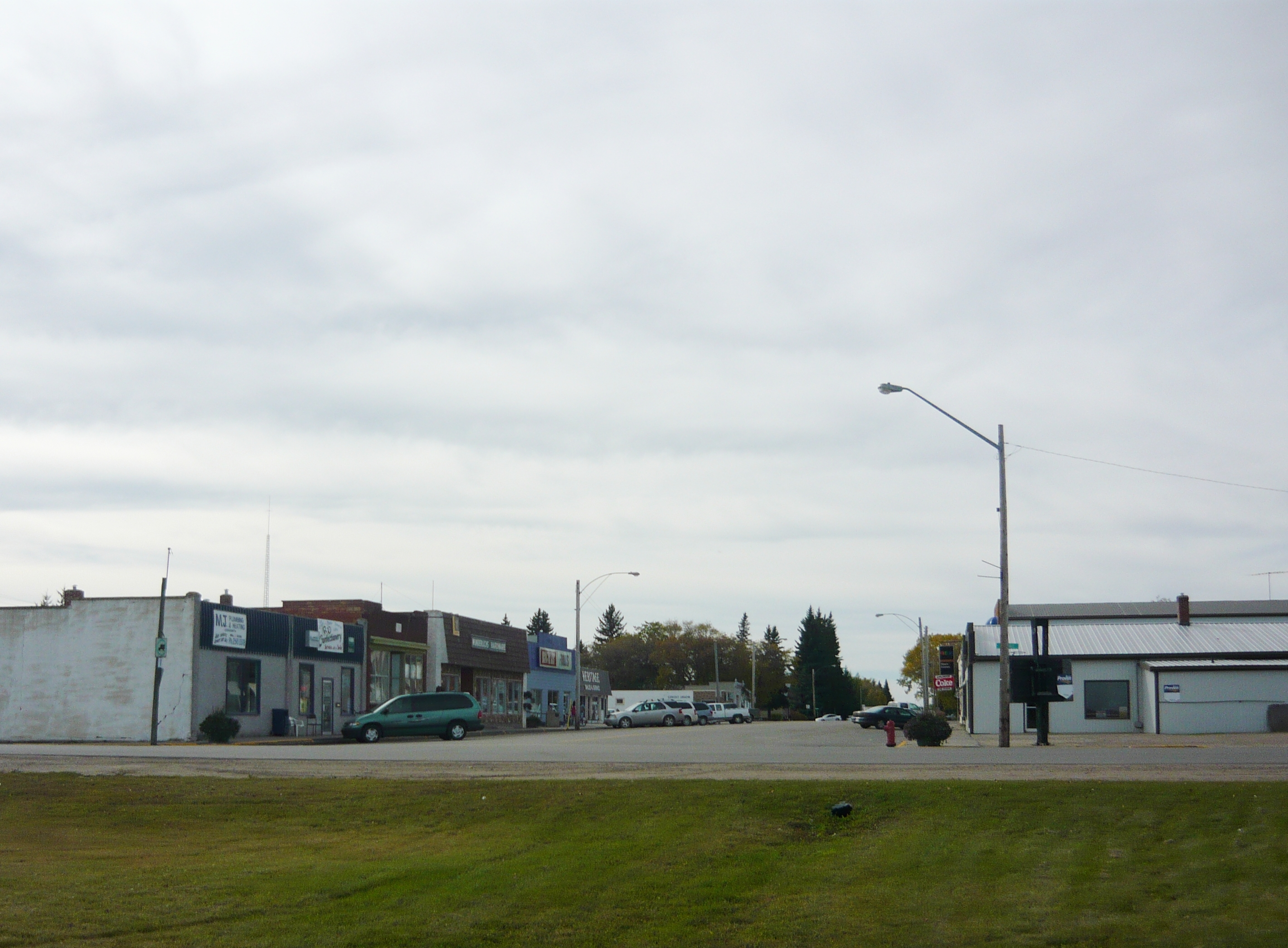 Looking westward on Main Street (from 1st Avenue) in Cudworth, Saskatchewan, Canada.